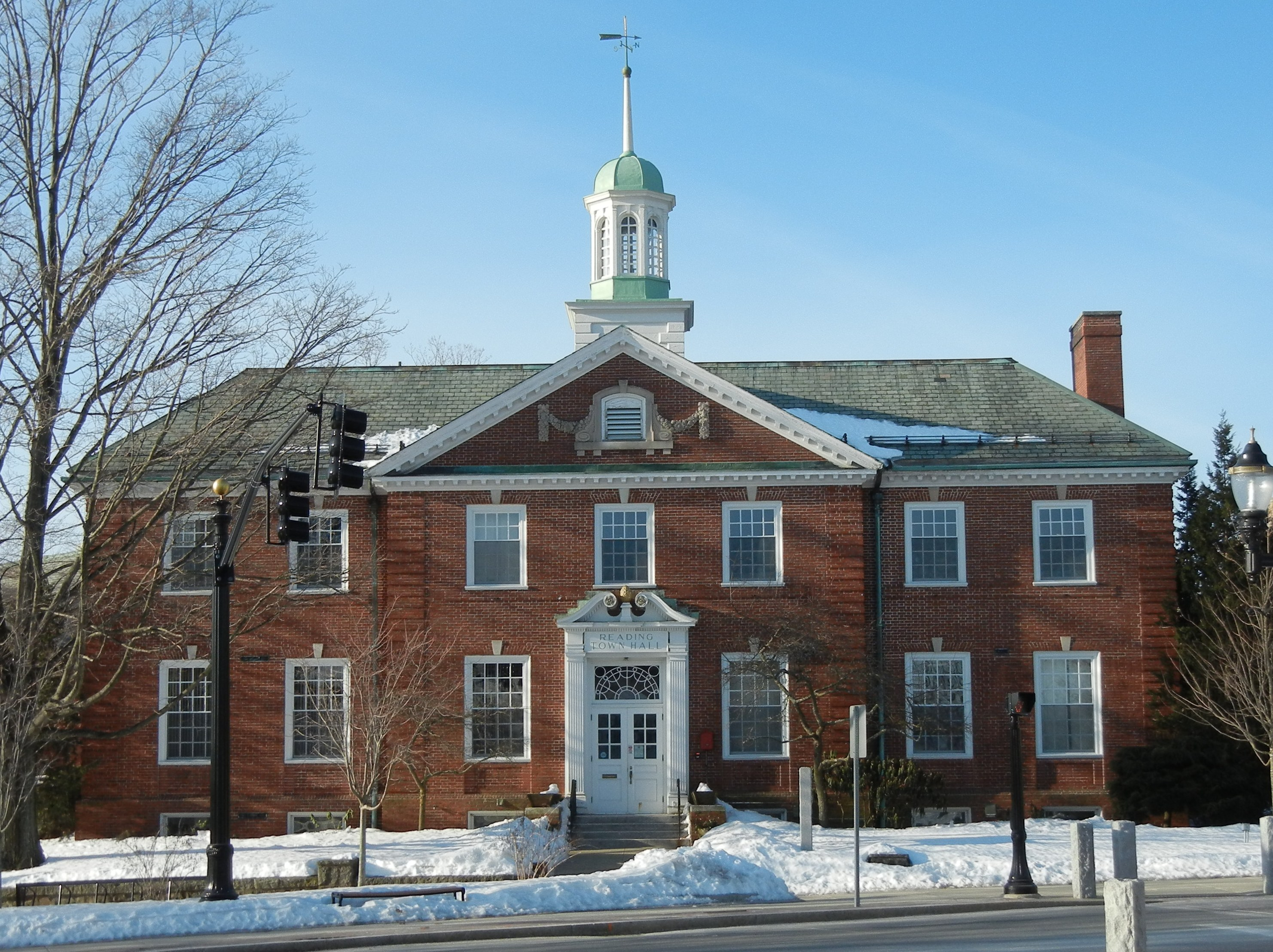 Reading Massachusetts Town Hall on March 2, 2014